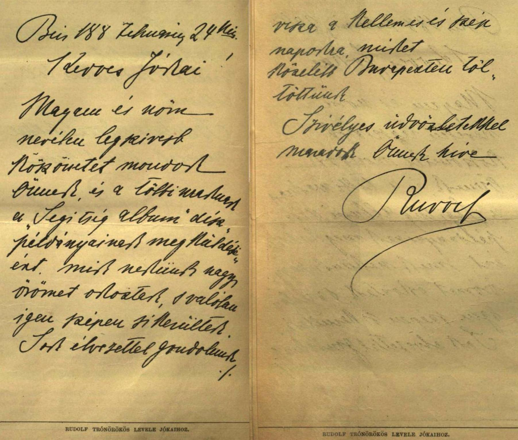 A letter from Rudolf, Crown Prince of Austria to Mór Jókai